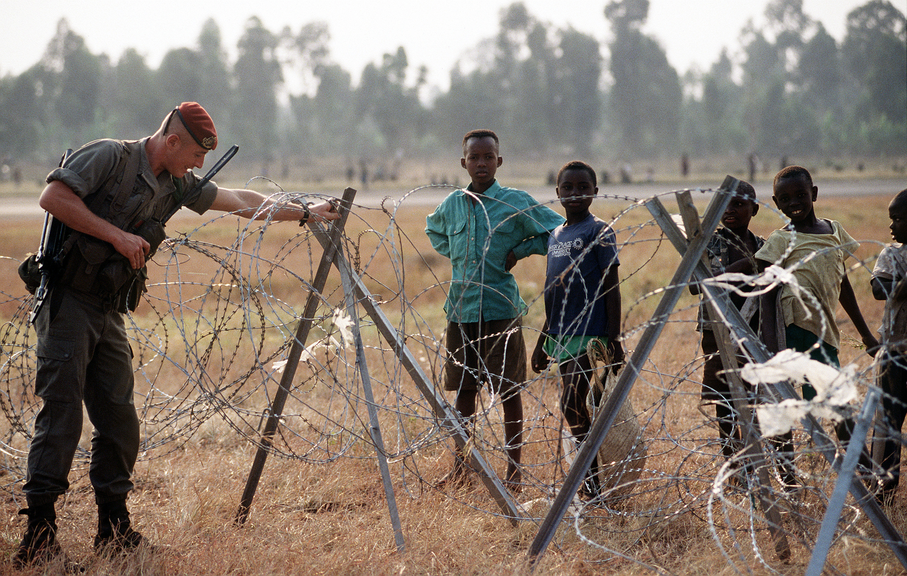 A French soldier, one of the international force supporting the relief effort for Rwandan refugees, adjust the concertina wire surrounding the airport. (Released to Public)